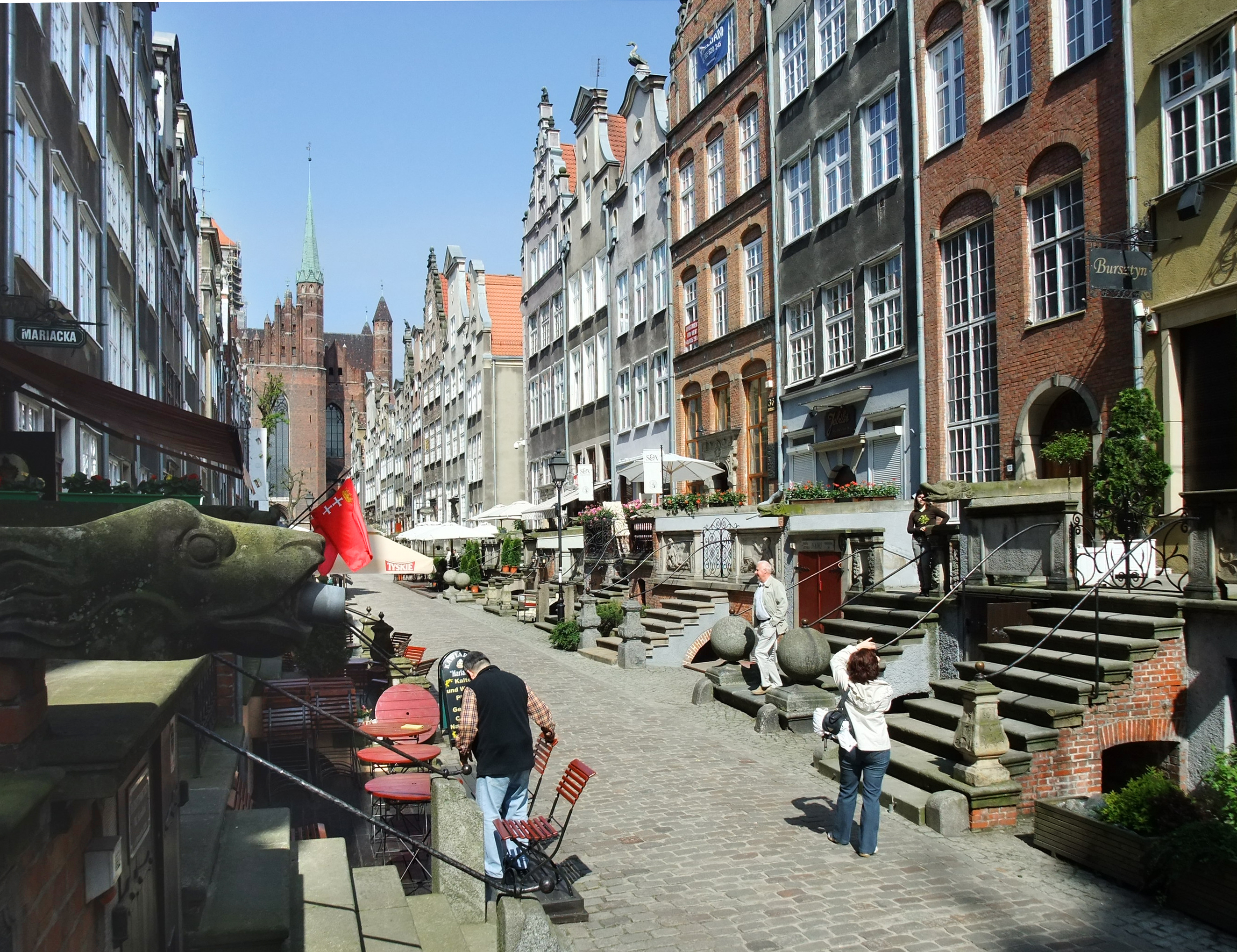 Mariacka Street in Gdańsk, Poland